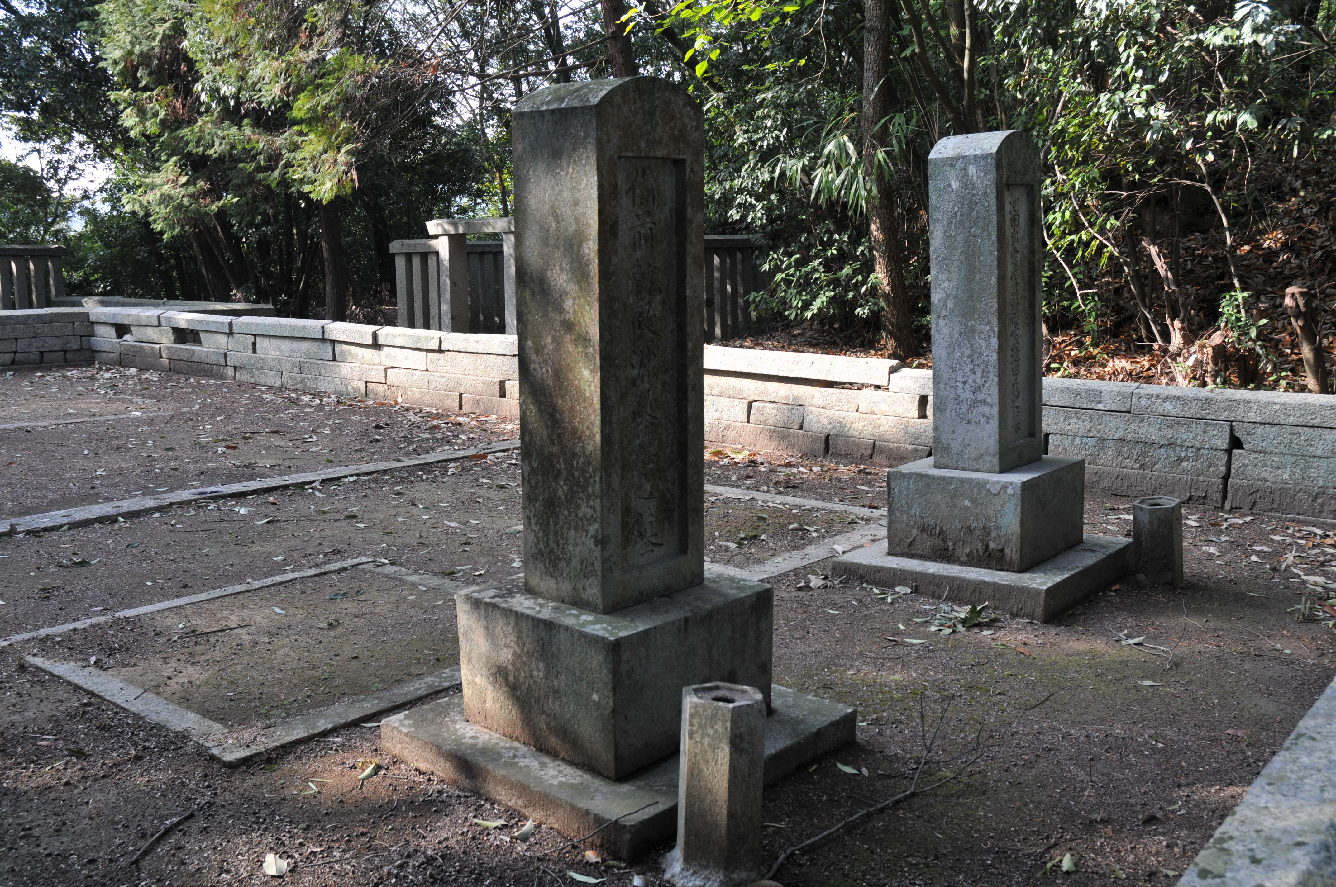 graves of Ikeda Masanori(left side, 8th famiry head) and his wife